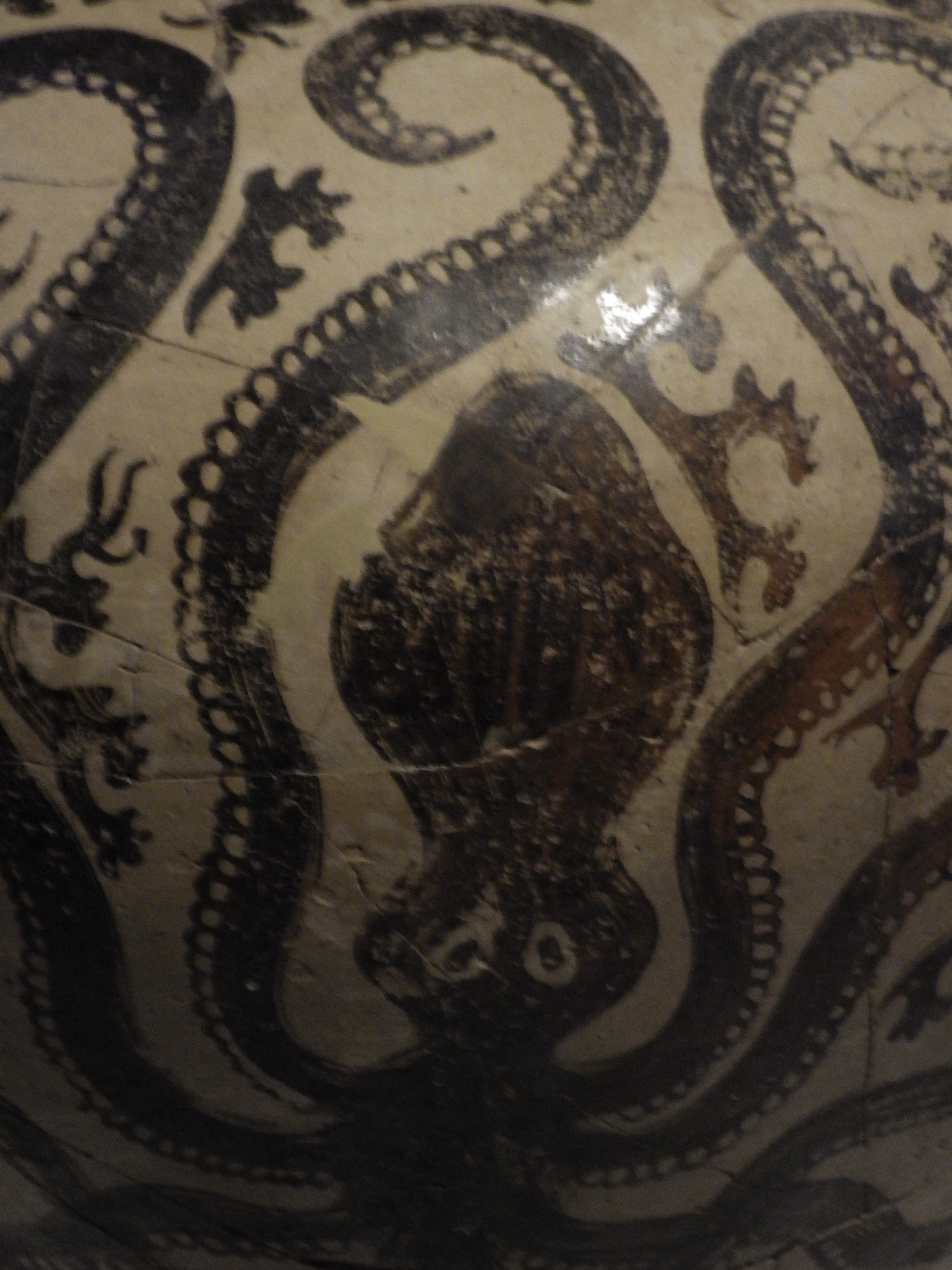 Ancient pottery illustrating the fearful Kraken myth!